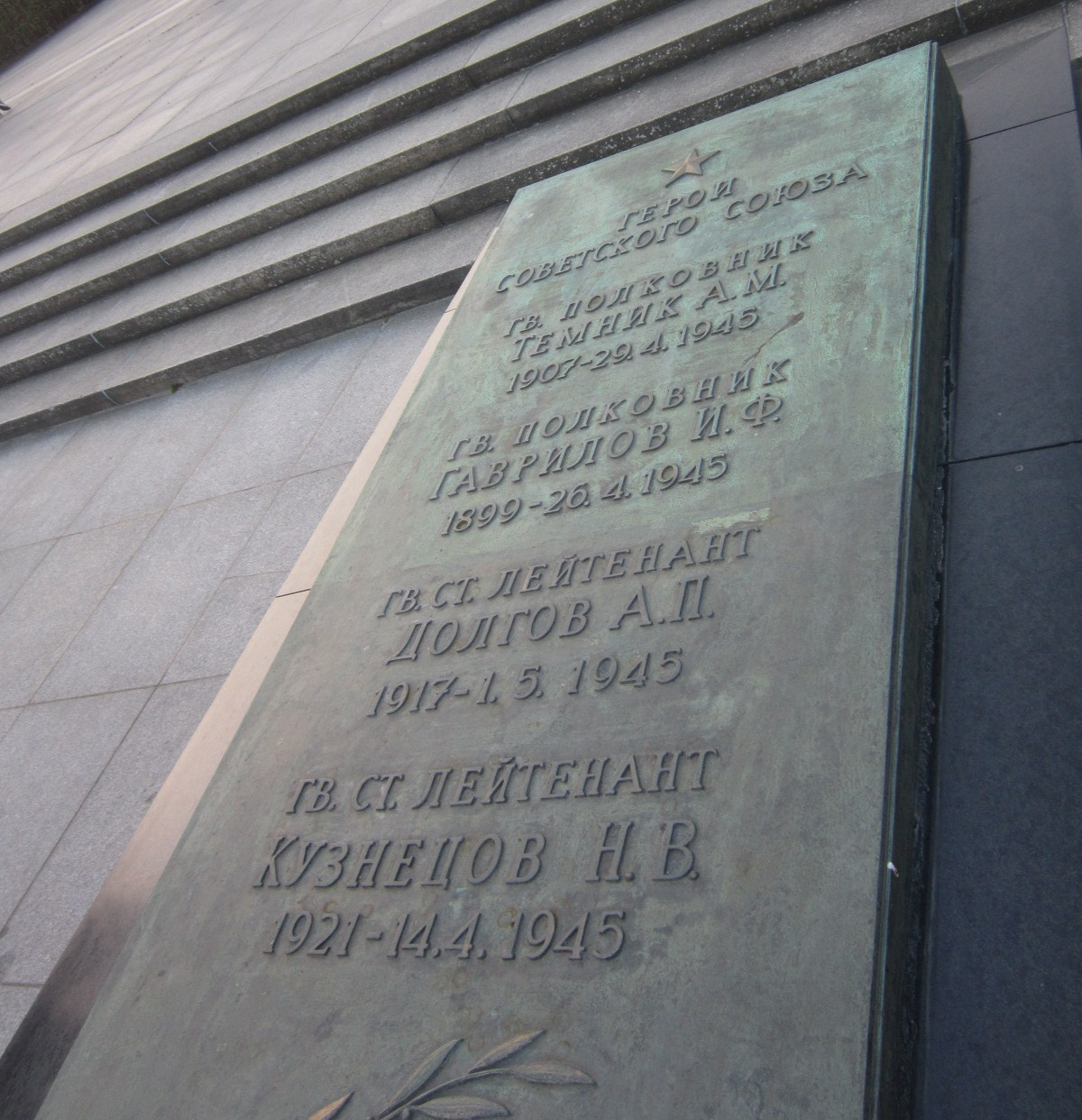 Soviet Cenotaph in Berlin. List of Soviet Union Heroes